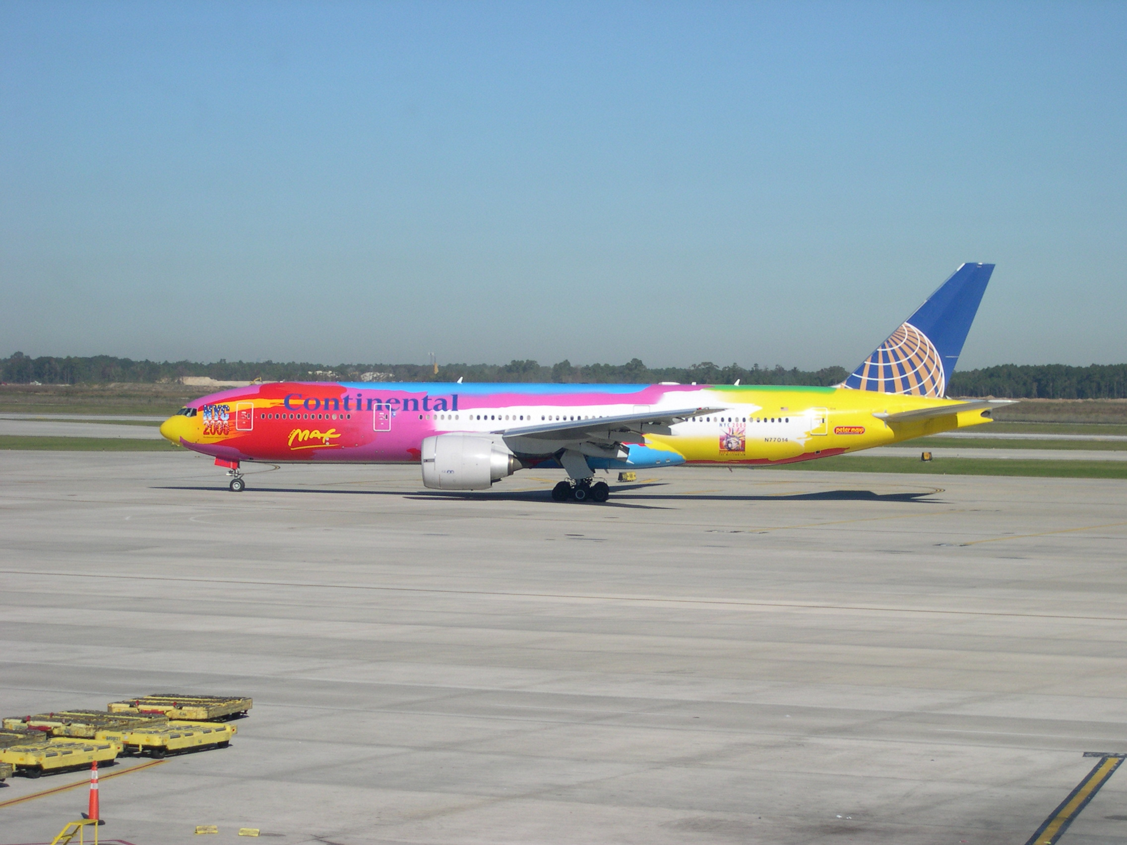 Boeing 777-200ER at IAH